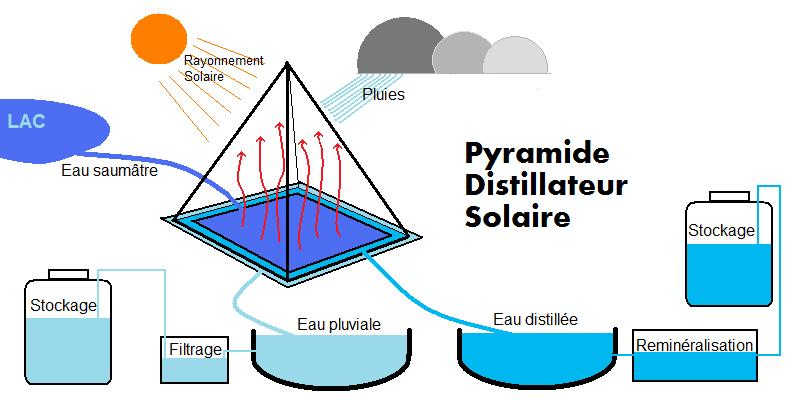 Solar Still Pyramid